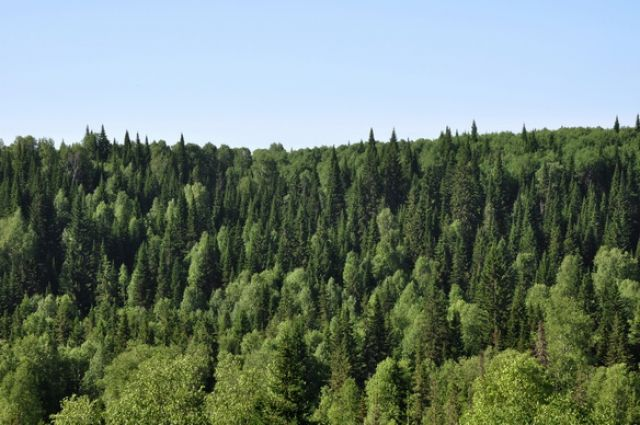 Салаирский заказник This image is related to the protected area of Russia number 4210004